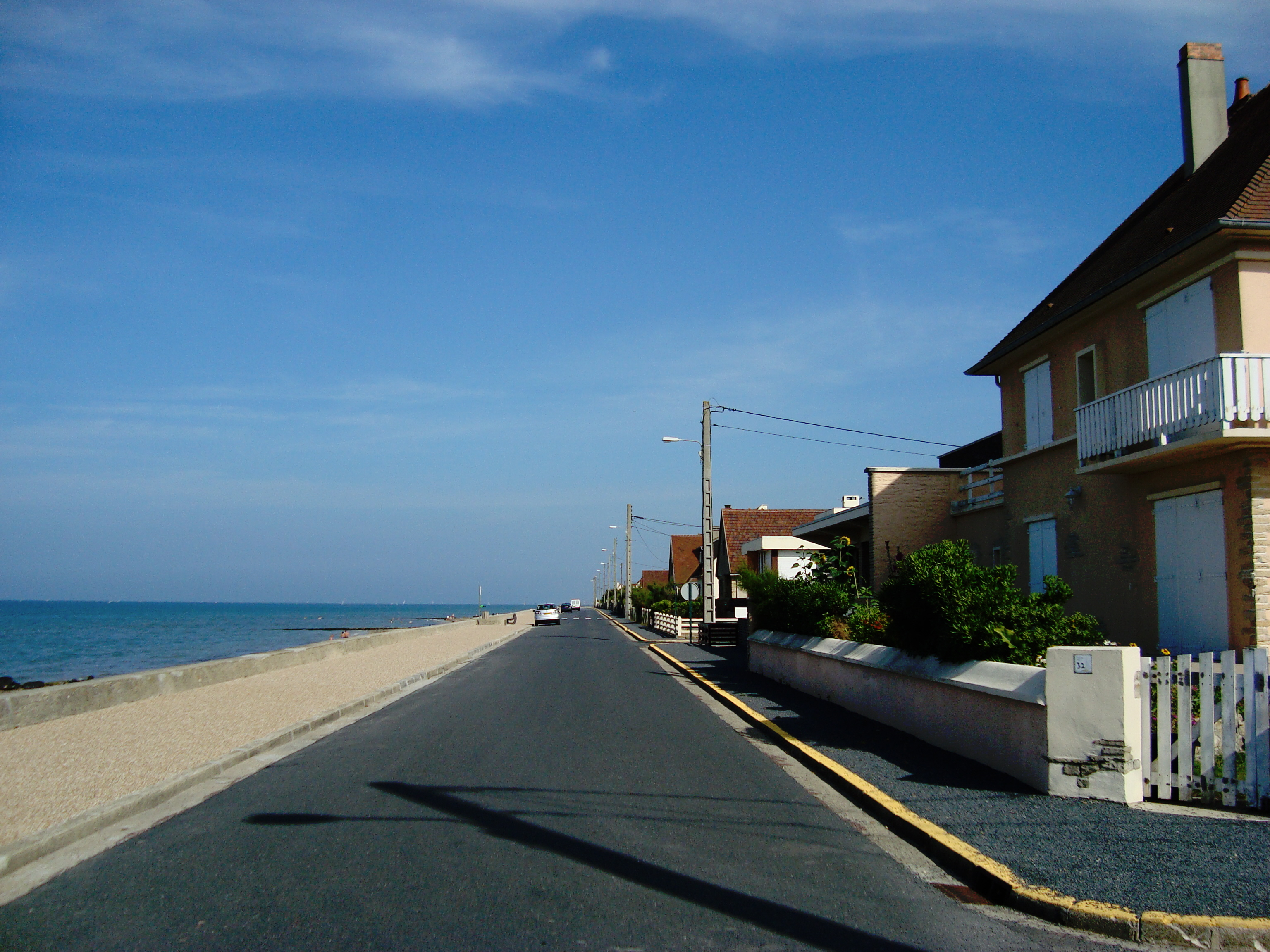 Ver-sur-Mer sea dike.